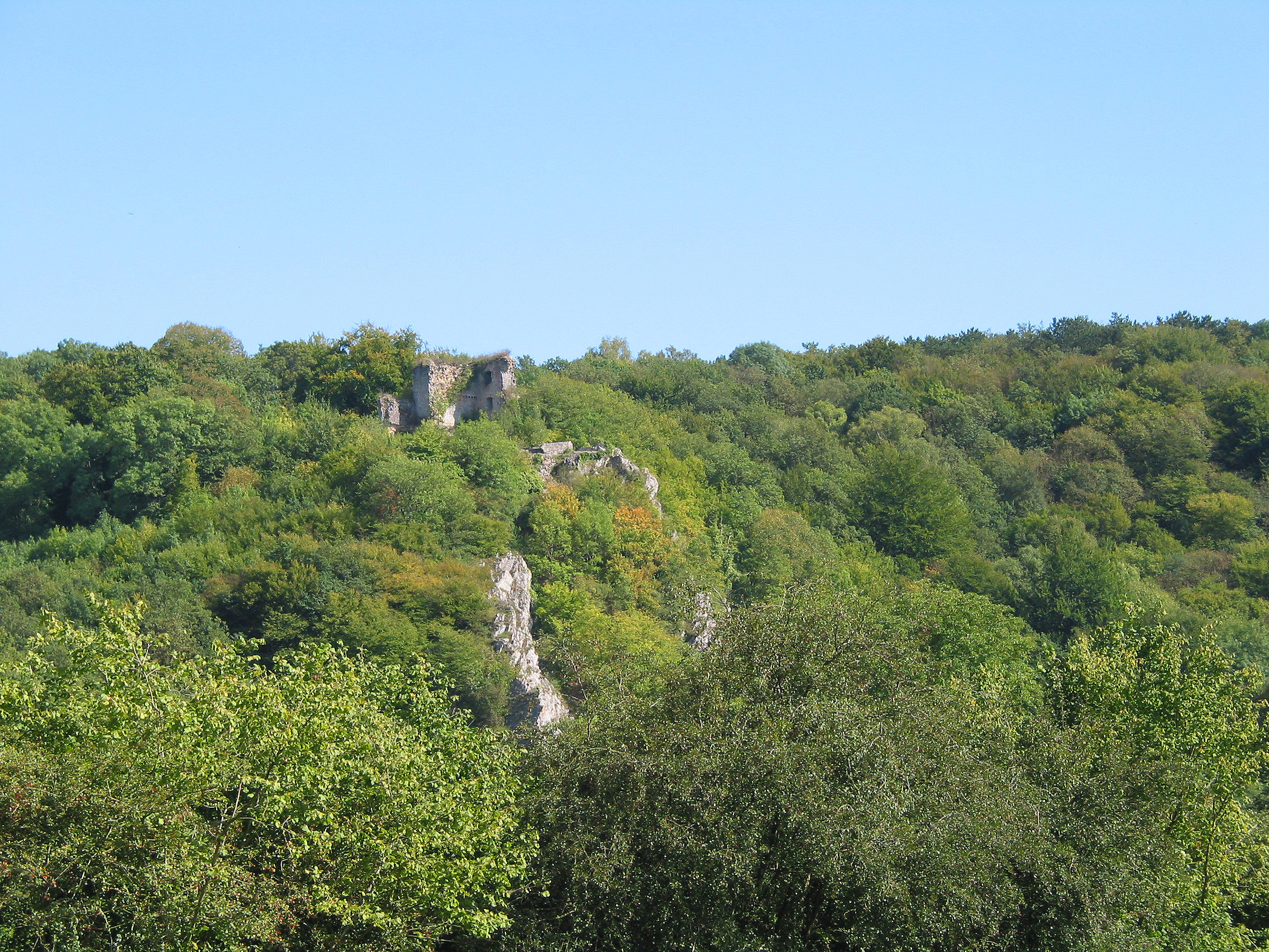 Dourbes (Belgium), "Hauteroche" fortified castle ruins (first mention at the begin of the XVth century and dismantled after the last siege of 1554). Walon: Doûpe (Bèljike), rwines do tchèstê « Hauterotche » dont on-z’a causè po l’prèmî côp au dèbut do XVin.me sièke èt k’a stî distrû après l’dêrins sîdje di 1554.